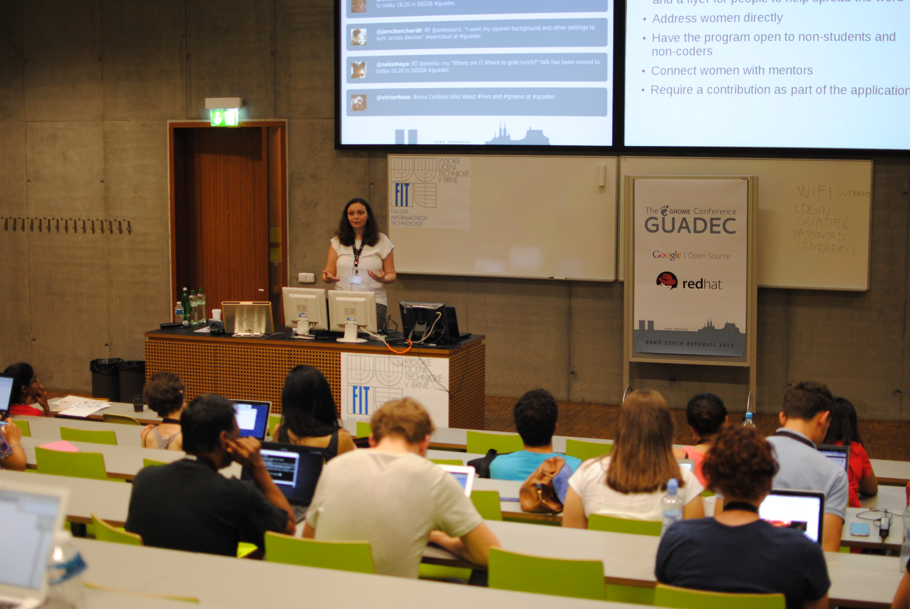 Marina Zhurakhinskaya: "Outreach Program for Women: a lesson in collaboration"